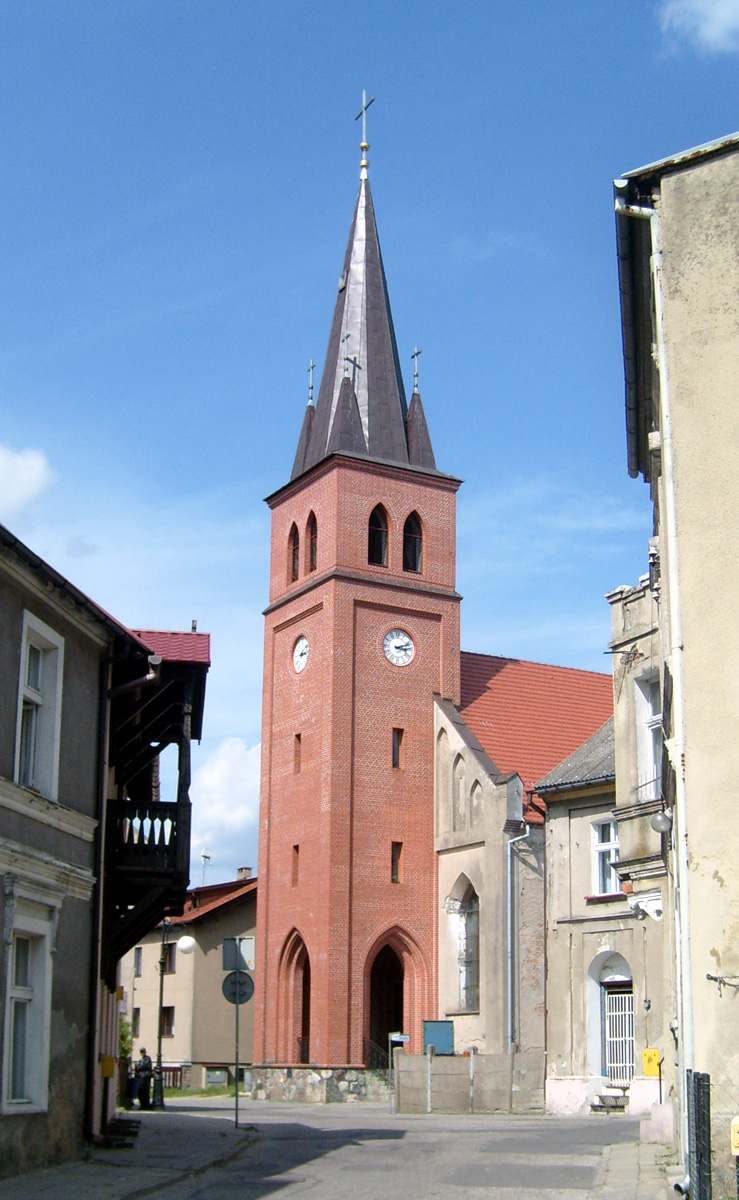 Saint James church in Tuchola, Poland